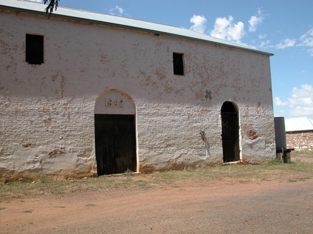 Cliefden, Mandurama: The northern elevation of the barn and woolshed building.